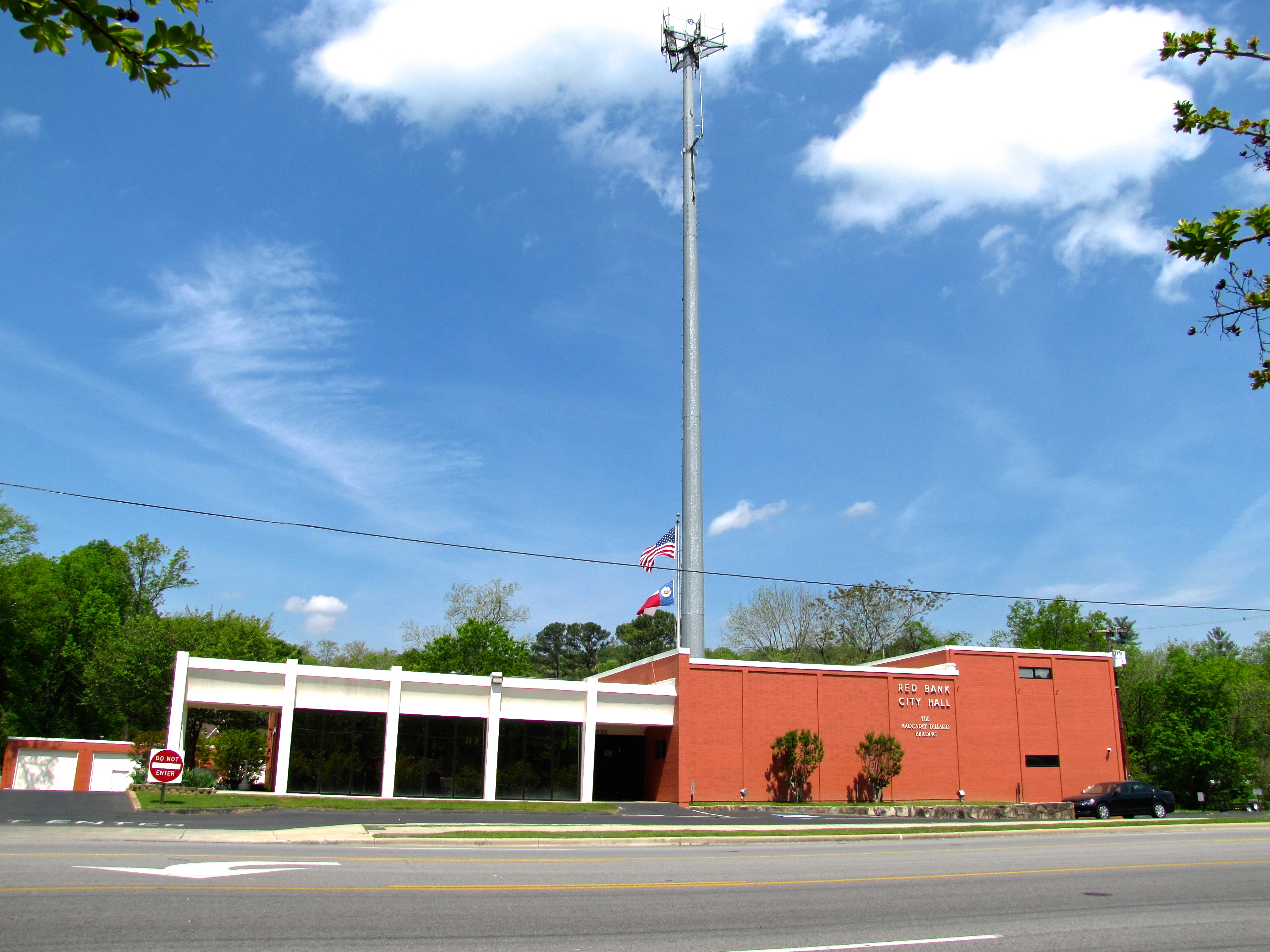 City Hall (Margaret Dillard Building) in Red Bank, Tennessee, United States.